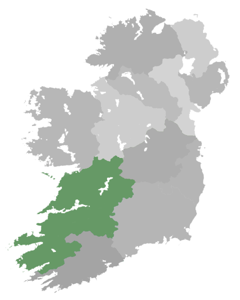 Location map of the Church of Ireland Diocese of Limerick and Killaloe Information source: Church of Ireland website]